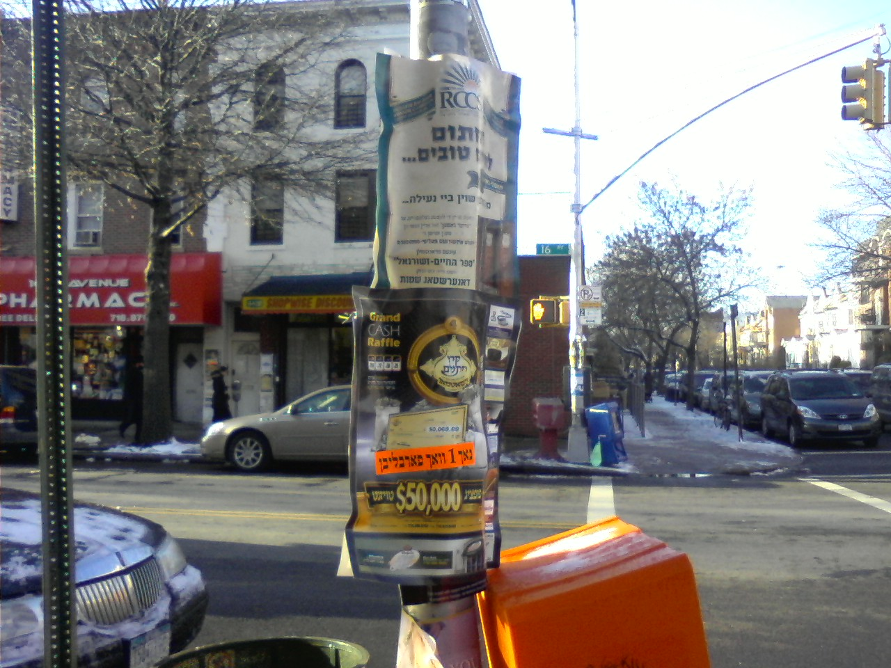 Yiddish posters in Brooklyn, New York